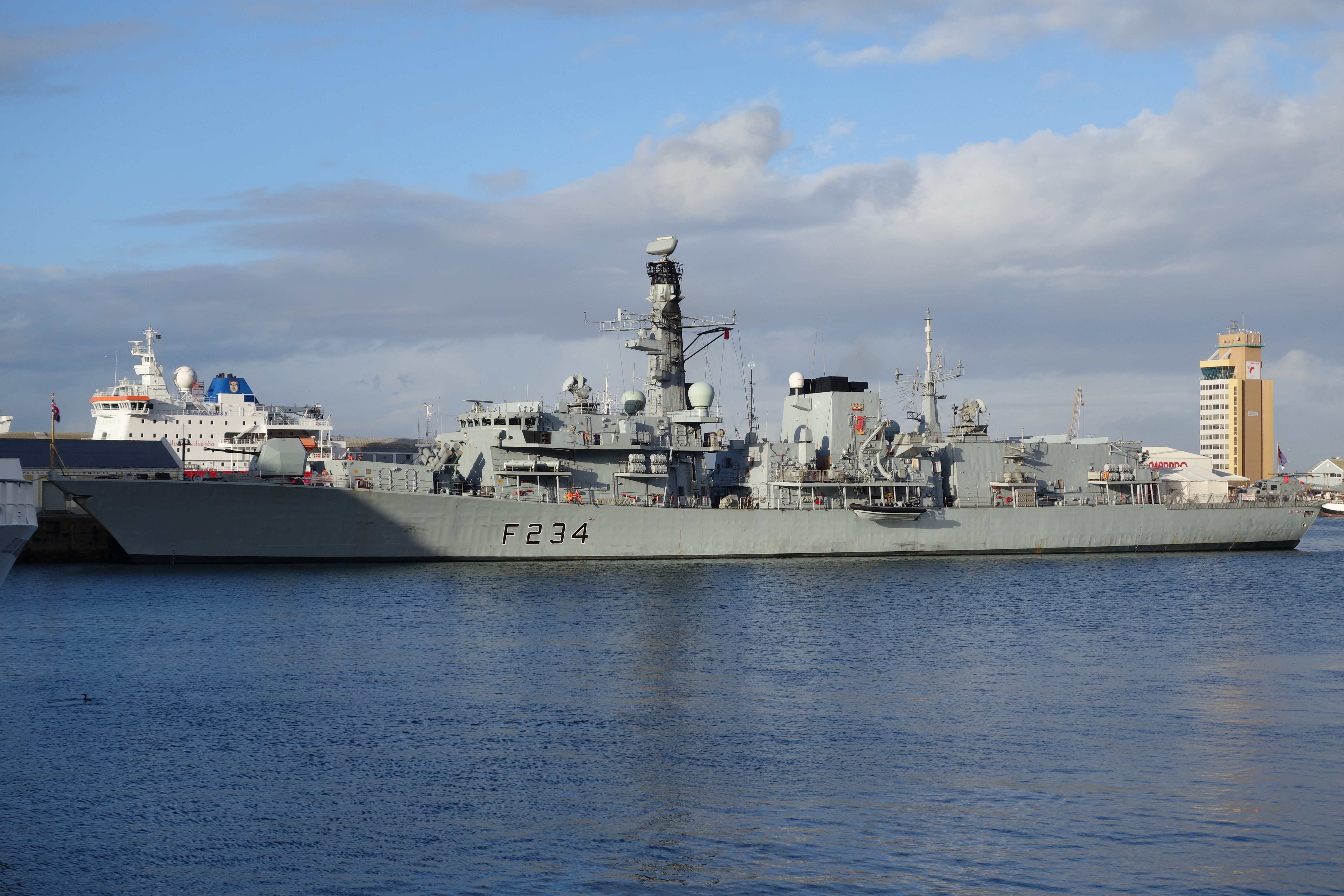 HMS Iron Duke alongside in Cape Town Victoria Waterfront August 2014